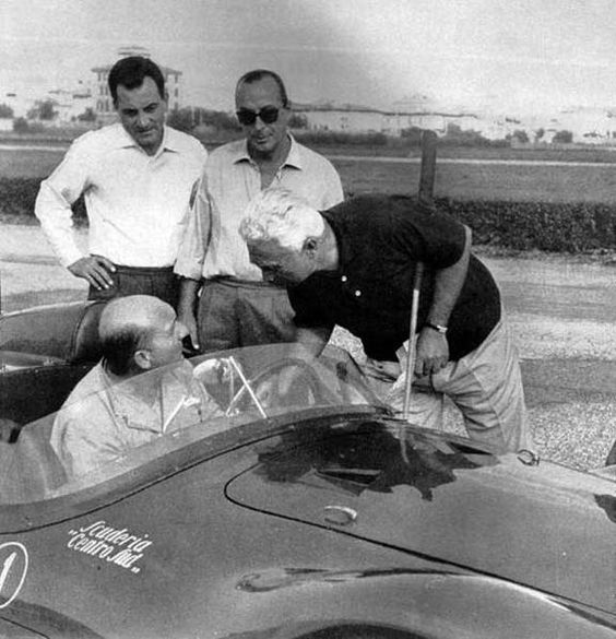 1956. Seated is Guerino Bertocchi, a Maserati engineer, in a Maserati A6GCS/53 labelled "Scuderia Centro Sud" (racing team). Standing (from left) is Giorgio Scarlatti (racecar driver), Mimmo Dei (leader/founder of the Scuderia Centro Sud racing team) and Piero Taruffi (racing driver). One historic Maserati forum thinks this is s/n 2096, which was raced 1956–57 by Scarlatti for this team.